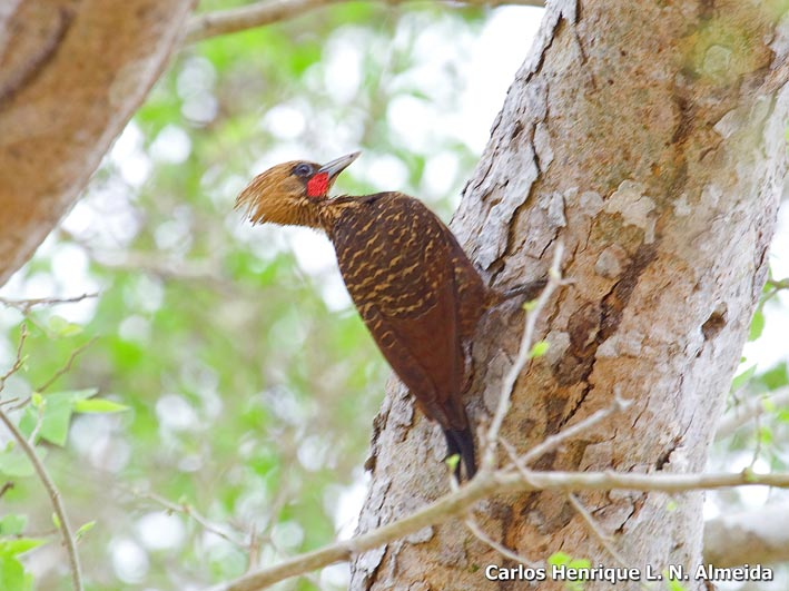 Celeus lugubris in Pantanal (Poconé, Mato Grosso, Brazil)